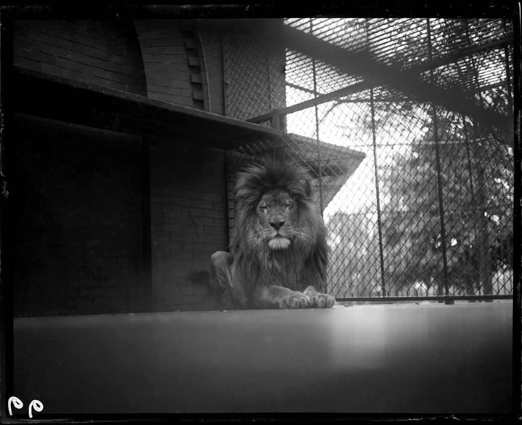 Male Lion, in a cage. Lincoln Park Zoo. 1900. Original size and material: 4x5 inch glass negative Digital Identifier: Z84204 Part of the Illinois Urban Landscapes Project